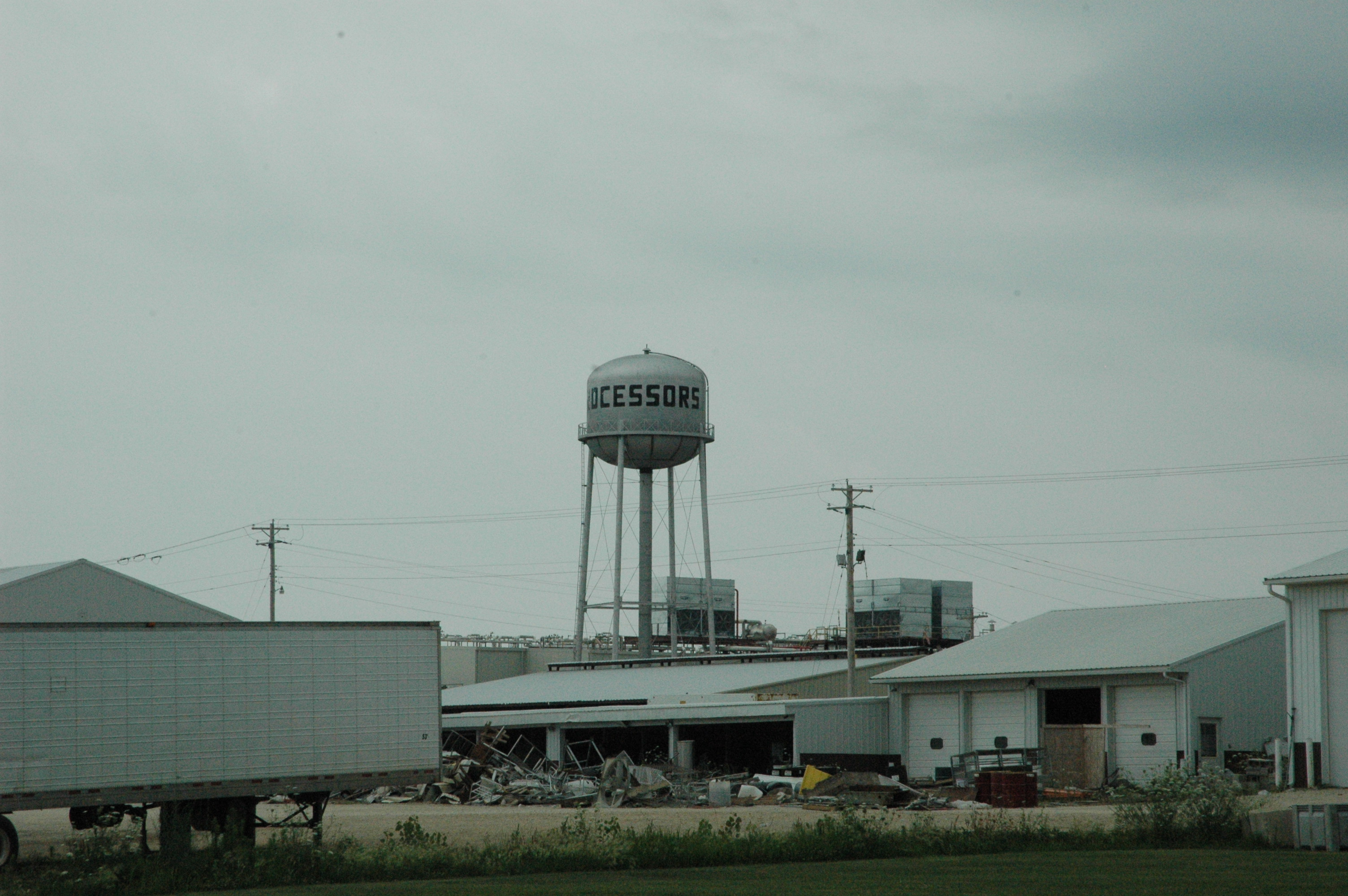 Agriprocessors plant water tower, Postville, Iowa